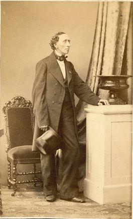 Portrait of Hans Christian Andersen by Danish photographer Georg Emil Hansen, summer 1862